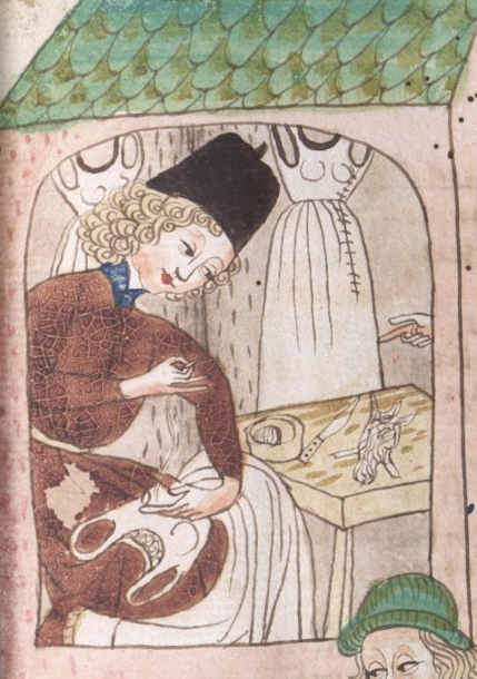 Schachzabelbuch - Cod.poet.et phil.fol.2 203r (detail)